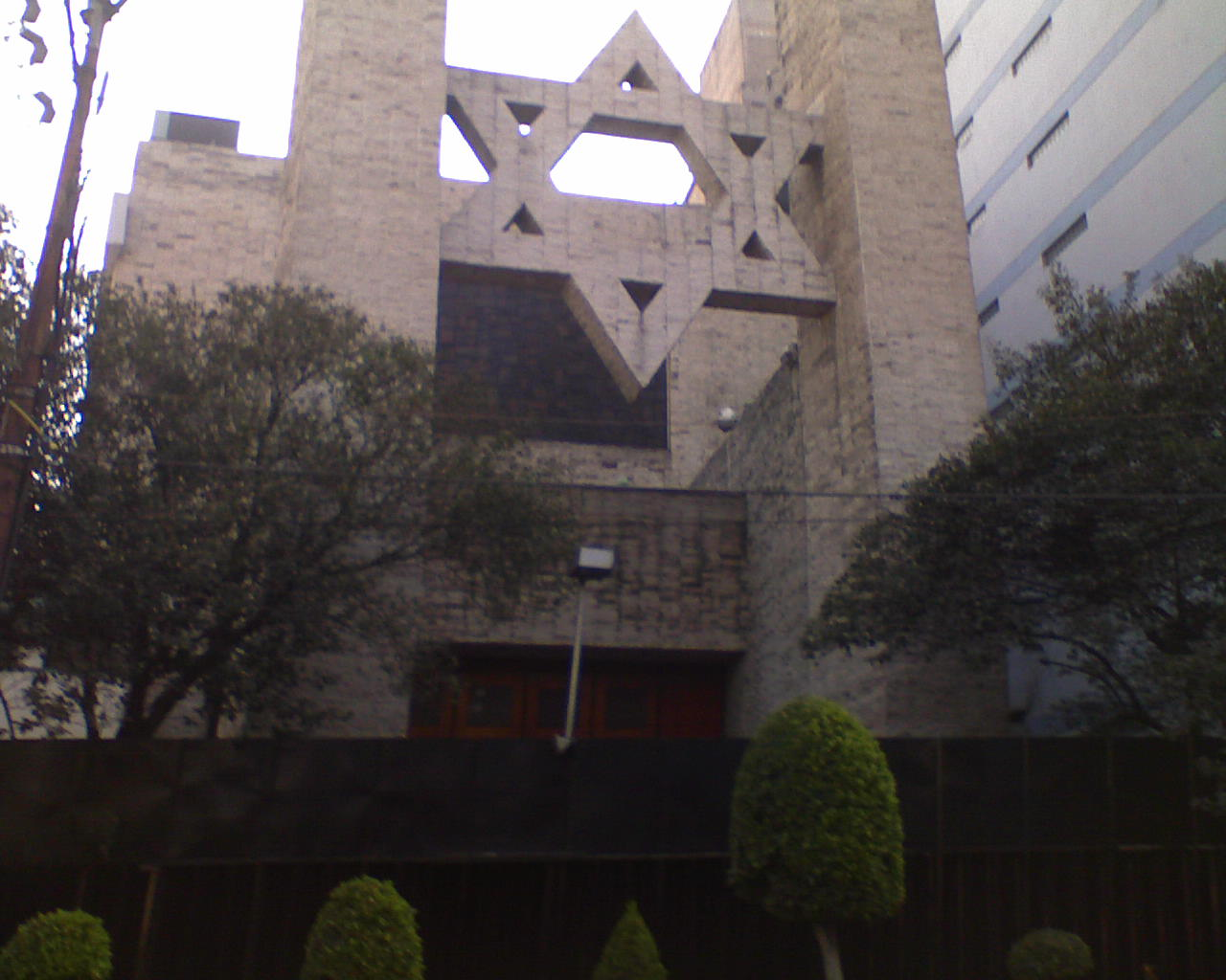 Synagogue in Mexico City